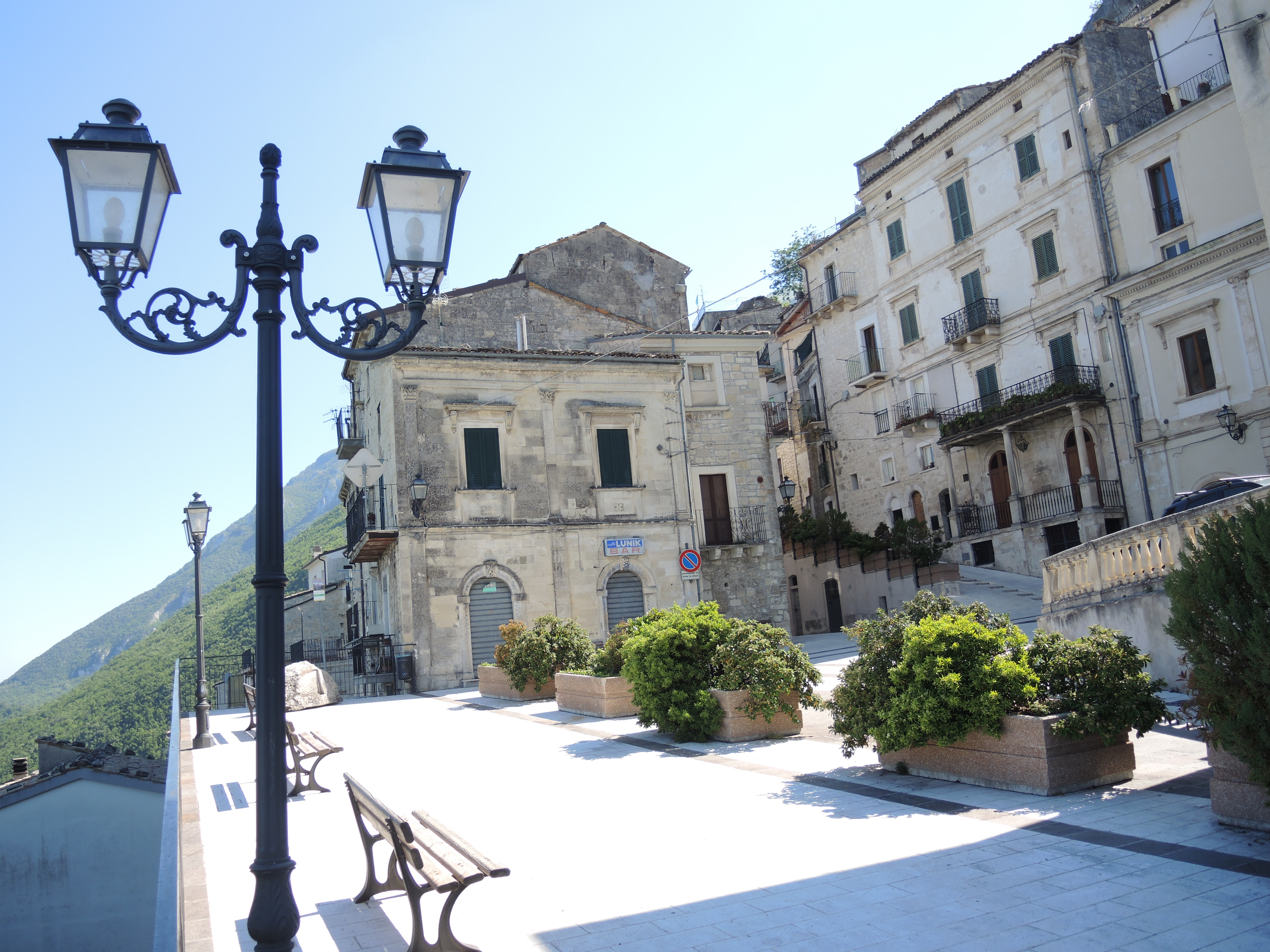 Pennapiedimonte (CH)